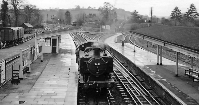 Bourne End Station. View SW, towards Marlow right, Maidenhead left; ex-GWR Maidenhead - High Wycombe line, junction of branch to Marlow. Line closed from High Wycombe 4/5/70, leaving Bourne End a terminus. (A 94XX 0-6-0 Pannier tank in foreground).